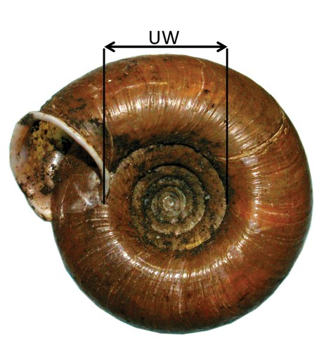 Aegista diversifamilia shell, ventral view.